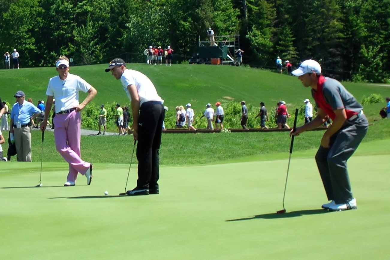 Ian Poulter, Geoff Ogilvy and Sergio Garcia at Telus World Skins Game, La Tempête Golf Club, Lévis, province of Quebec, Canada